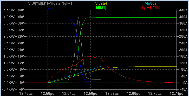 NMOS power transistor turning on